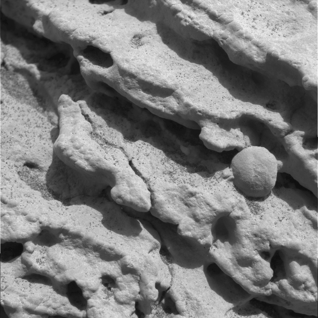 This sharp, close-up image taken by the microscopic imager on the Mars Exploration Rover Opportunity's instrument deployment device, or "arm," shows a rock target dubbed "Robert E," located on the rock outcrop at Meridiani Planum, Mars. Scientists are studying this area for clues about the rock outcrop's composition. This image measures 3 centimeters (1.2 inches) across and was taken on the 15th day of Opportunity's journey (Feb. 8, 2004).